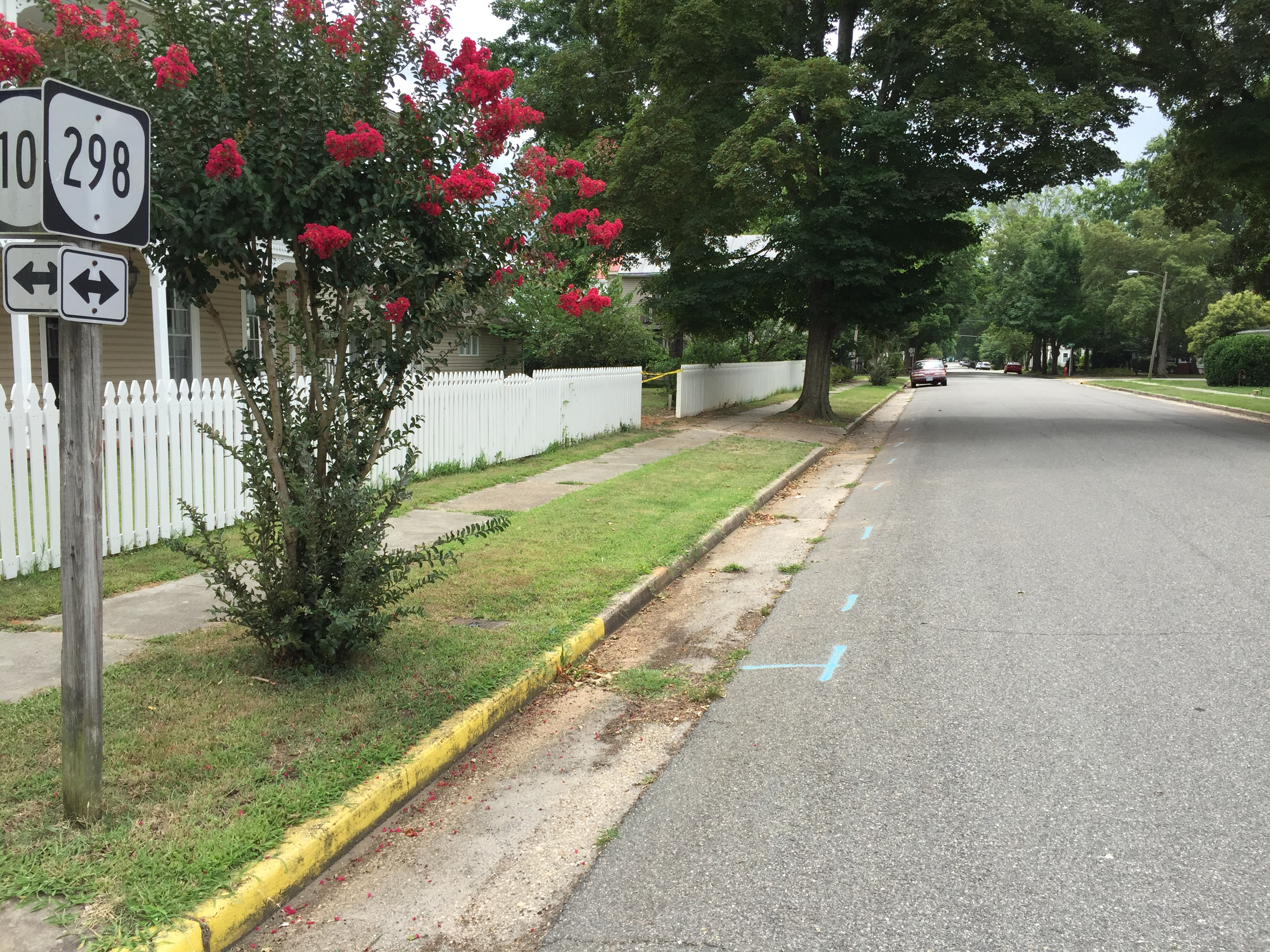 View southeast along Virginia State Route 298 (Lee Street) at 9th Street in West Point, King William County, Virginia